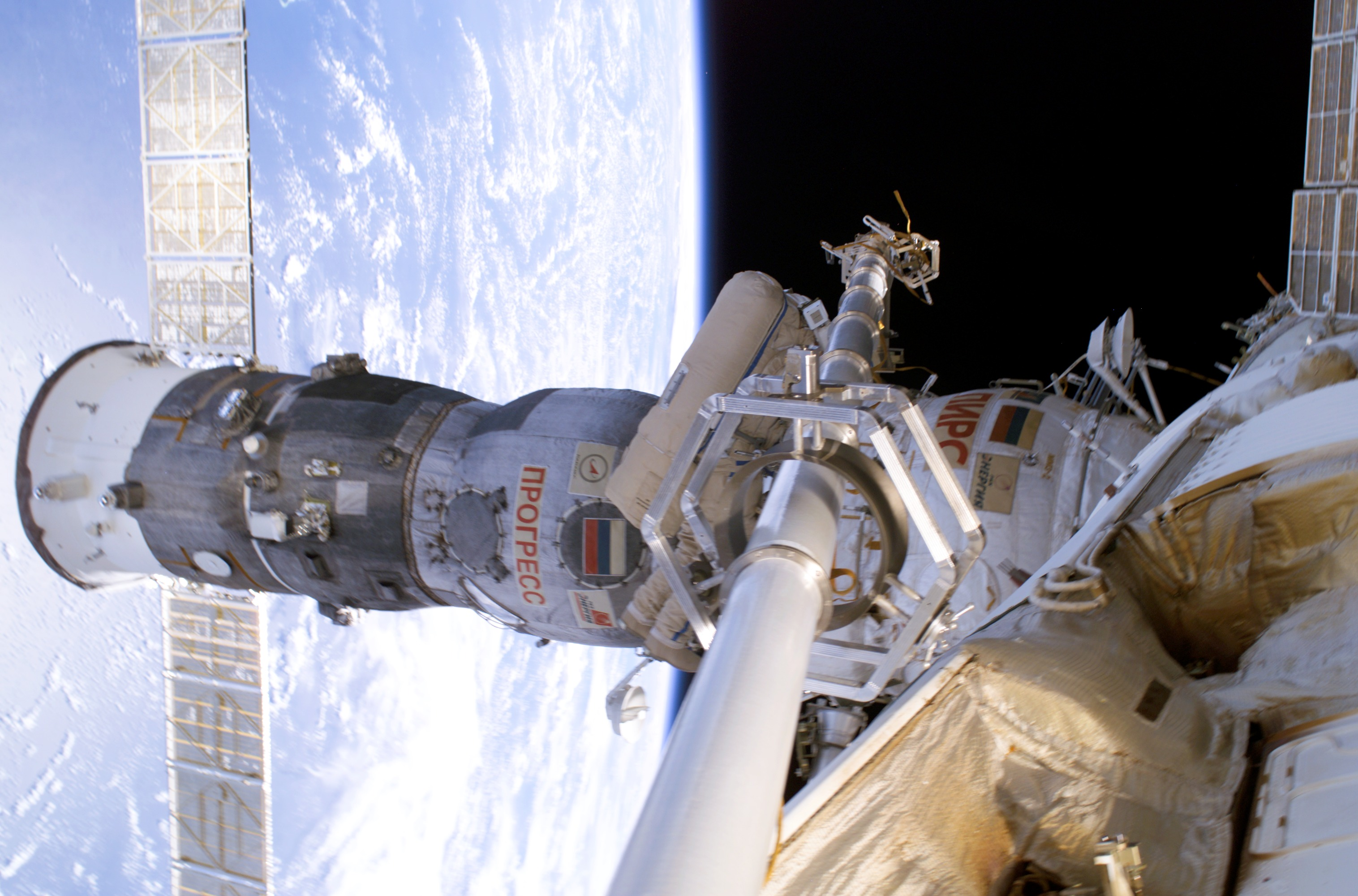 ISS013-E-29003 (1 June 2006) --- The Progress 20 supply vehicle, docked to the Pirs Docking Compartment of the International Space Station, is featured in this image photographed by an Expedition 13 crewmember during today�s spacewalk. Progress 20 will remain docked until mid-June. It will be used to stow trash, and its supply of oxygen will help replenish the station�s atmosphere. A blue and white Earth and the blackness of space provided the backdrop for this image.